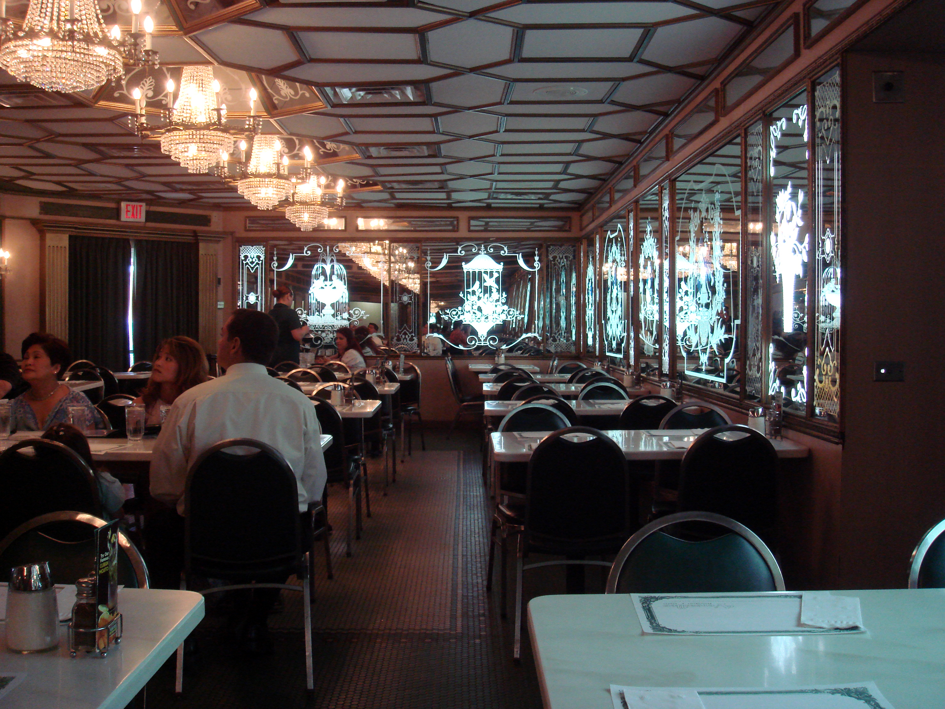 Interior of Versailles Restaurant in Little Havana, Miami, Florida.